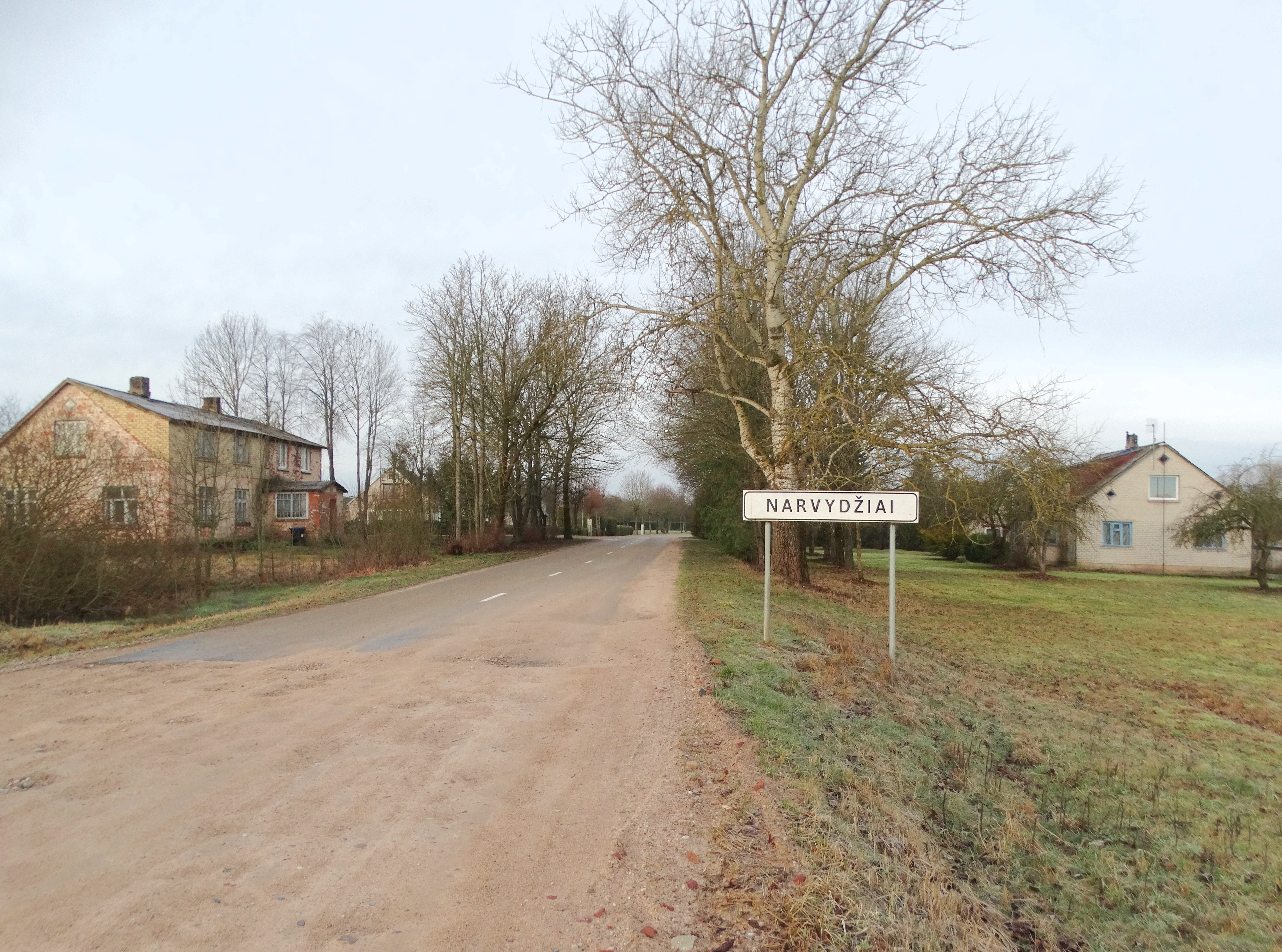 Narvydžiai, Skuodas District, Lithuania